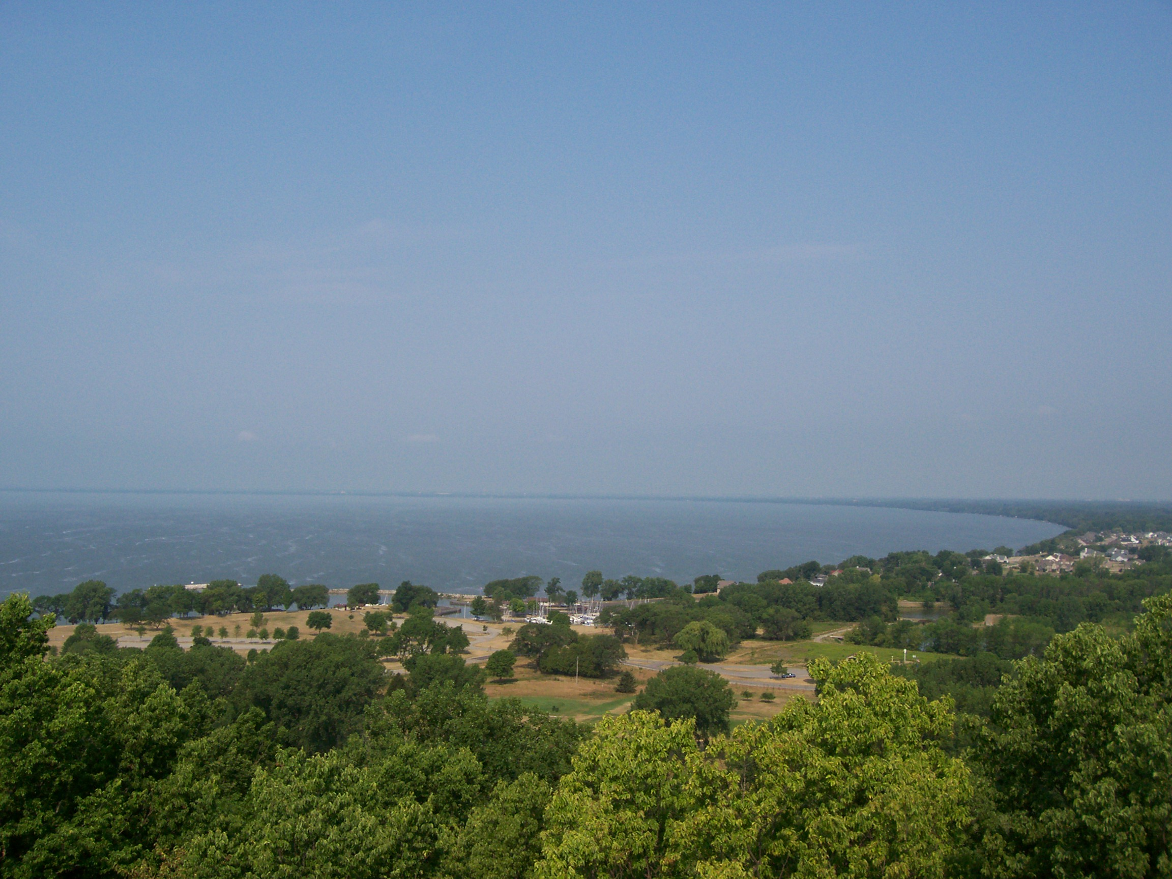 The north end of Lake Winnebago taken from the observation tower at High Cliff State Park in Sherwood, Wisconsin, USA.